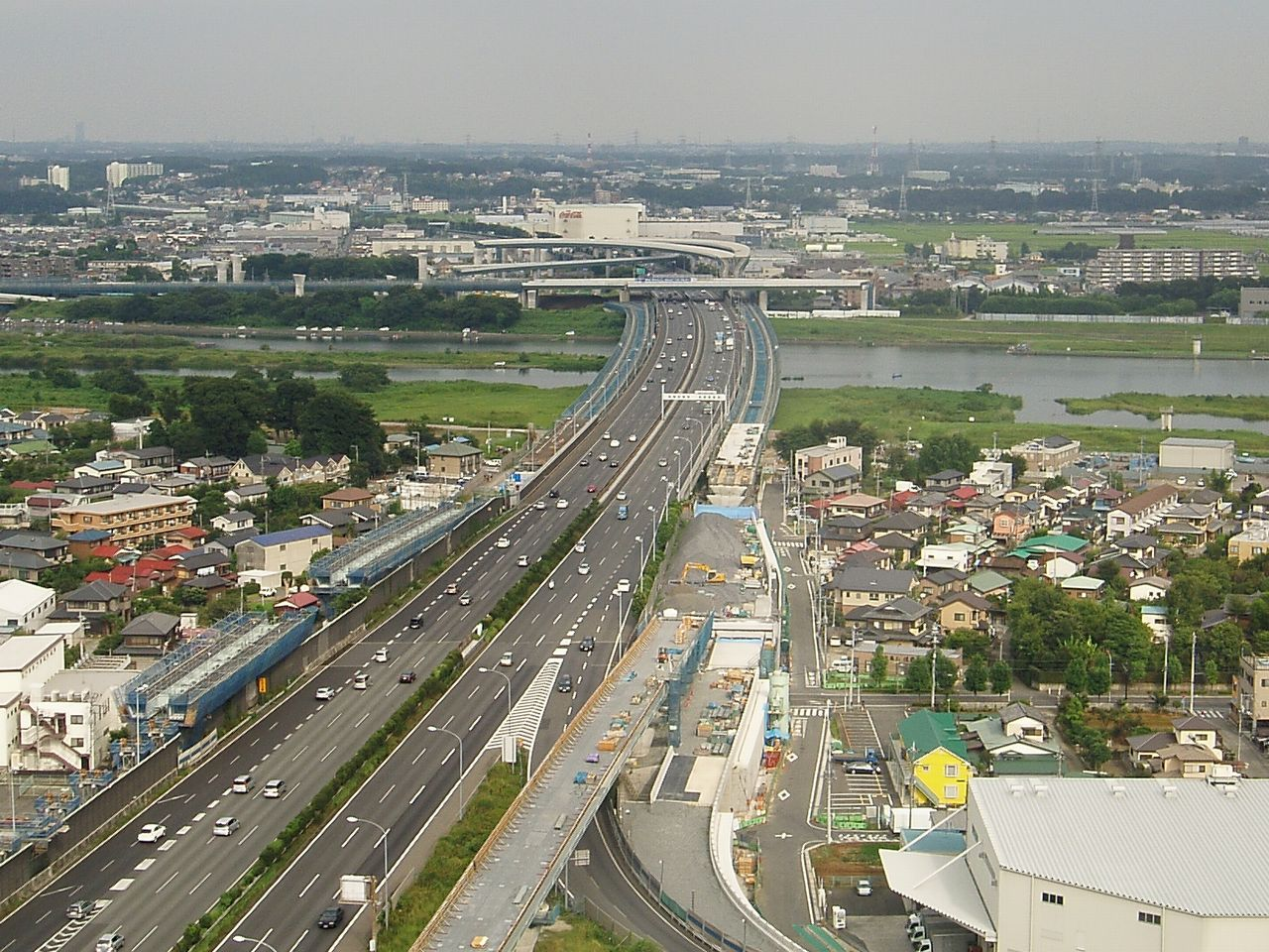 Atsugi Interchange on the Tomei Expressway, view towards Tokyo. Connection roads run on both sides of the main line. Ebina Junction lies beyond the river